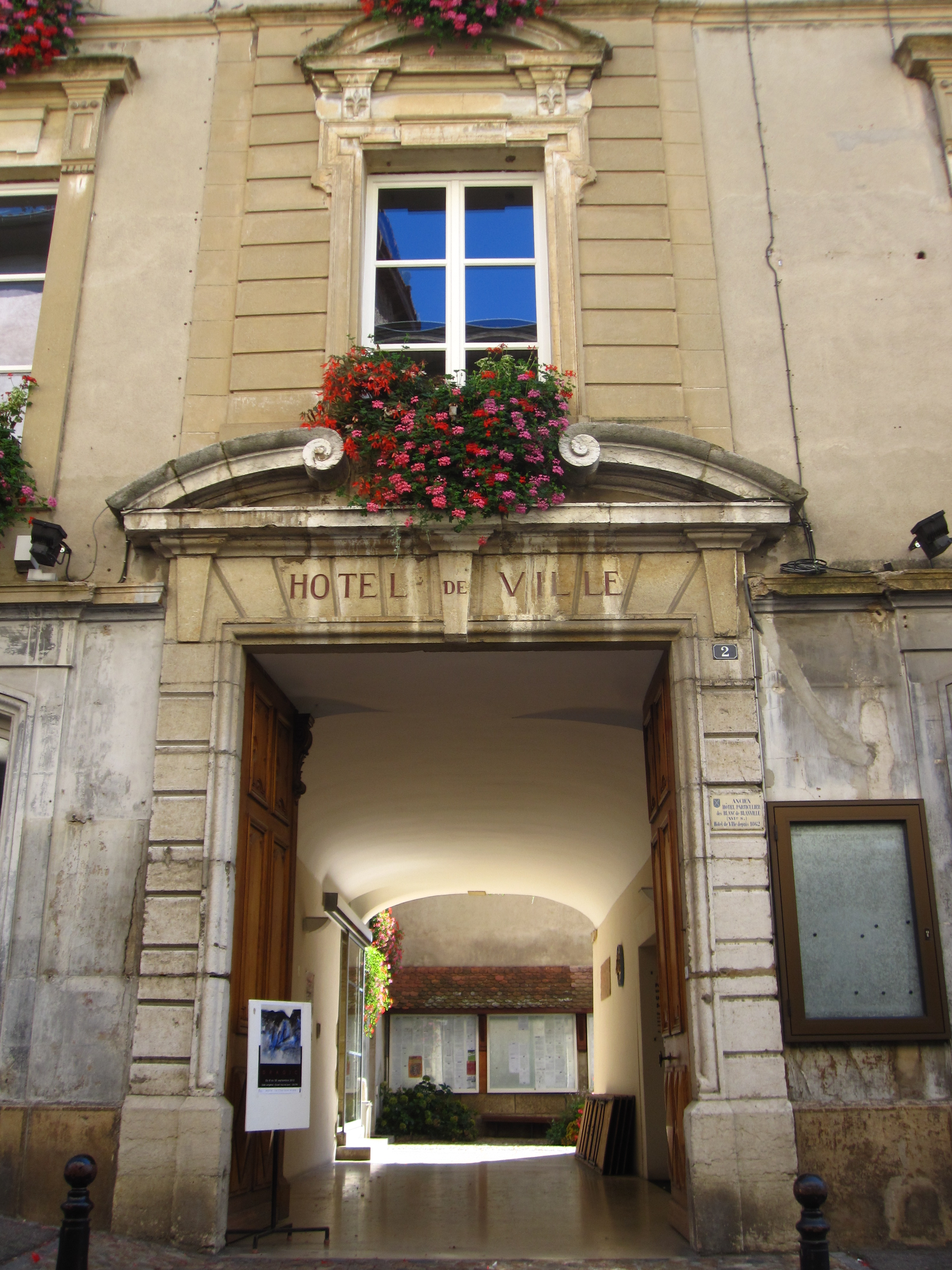 Photograph of the entrance of La Côte-Saint-André's town hall